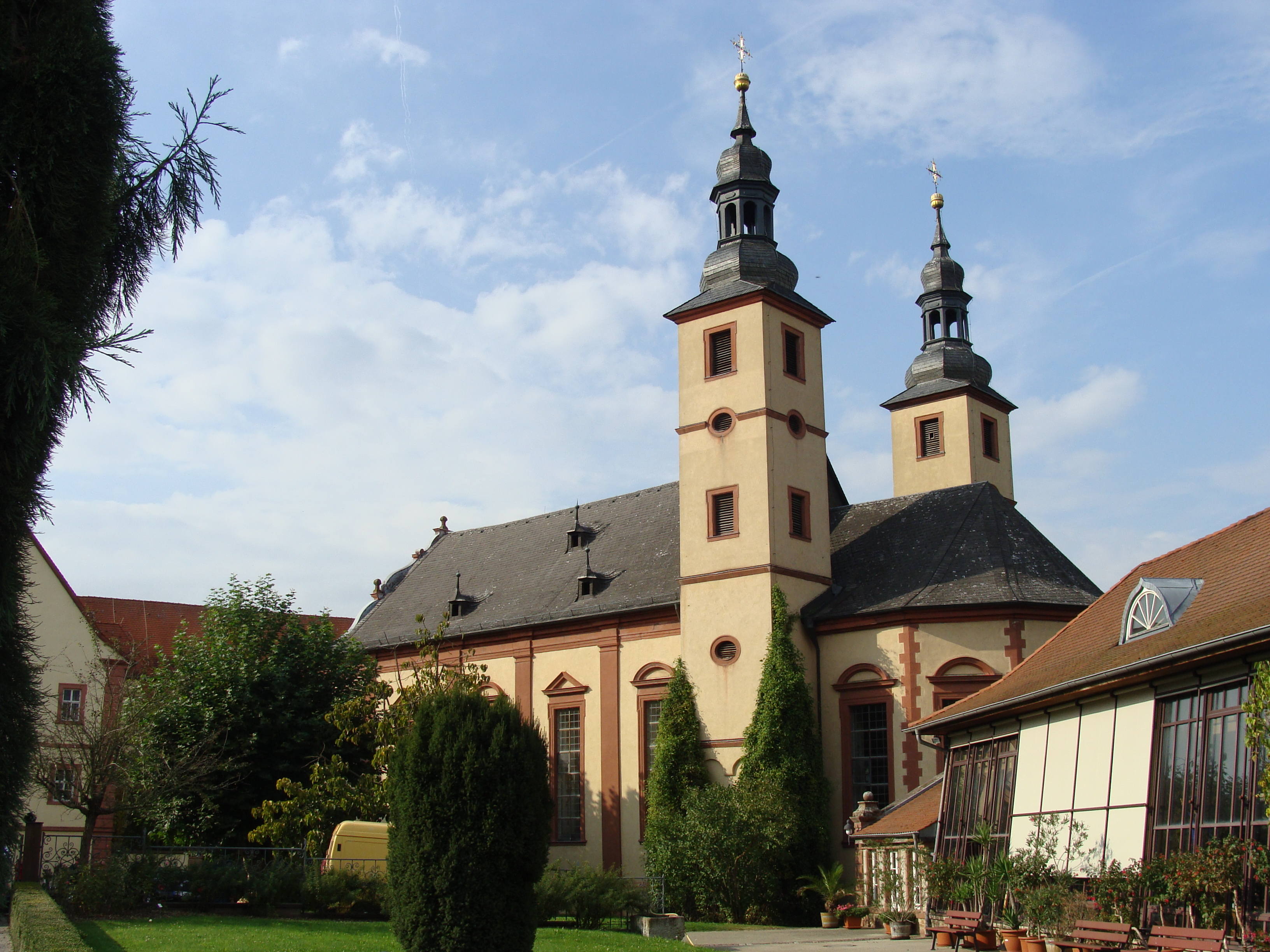 Triefenstein monastery near Lengfurt